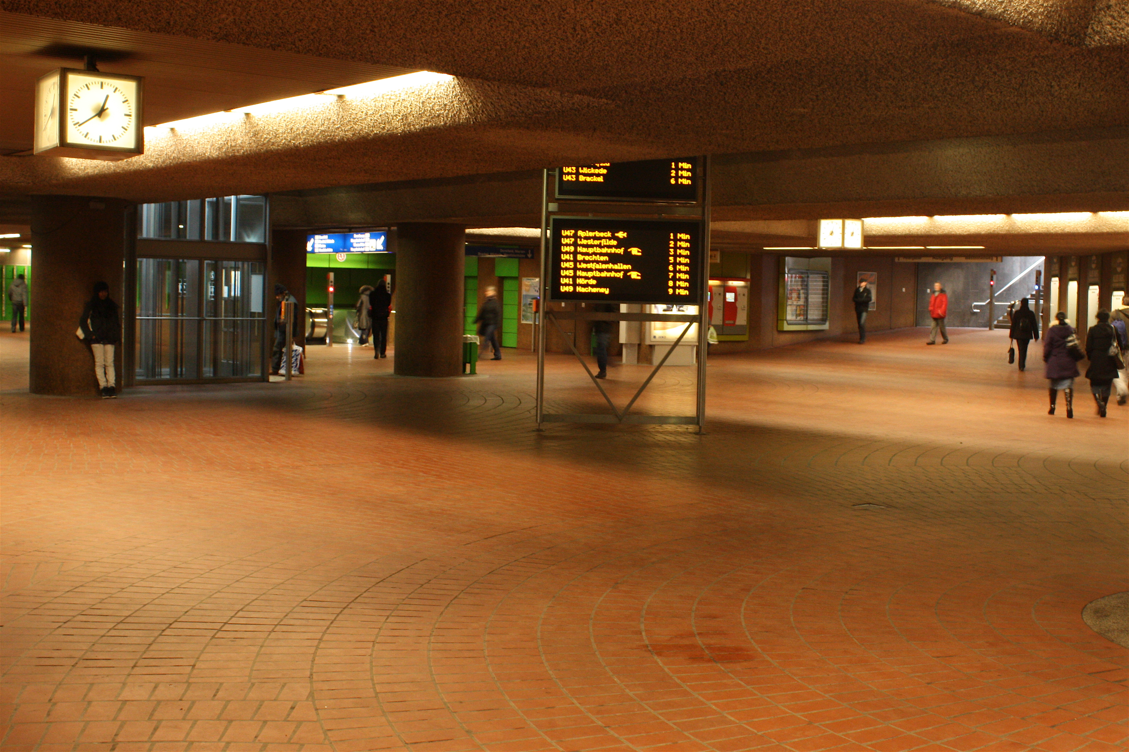 Terminal floor of the Kampstraße station in the Dortmund Stadtbahn (local public transit system).